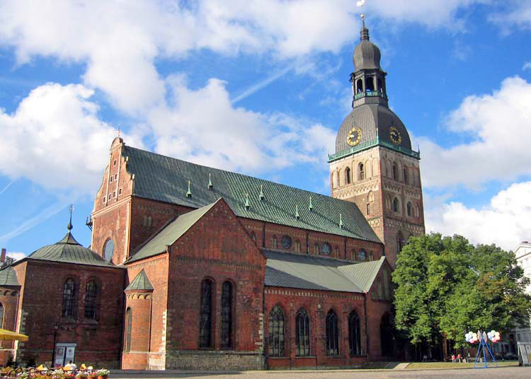 Dom Cathedral in central Riga. Photograph by Stuart Edwards, August 2005.